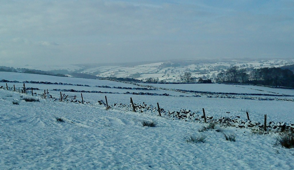 Washburn Valley Wakefield Folly, a half ruined barn can be seen on the right of this photo. Askwith and Weston Moors are in the sun on the horizon.